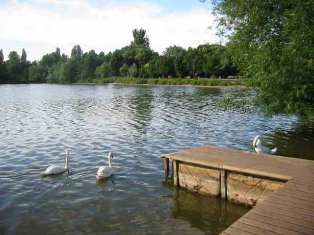 Bury Lake at the Aquadrome Rickmansworth. Part of the Rickmansworth Aquadrome LNR Incorrectly described: not Batchworth Lake